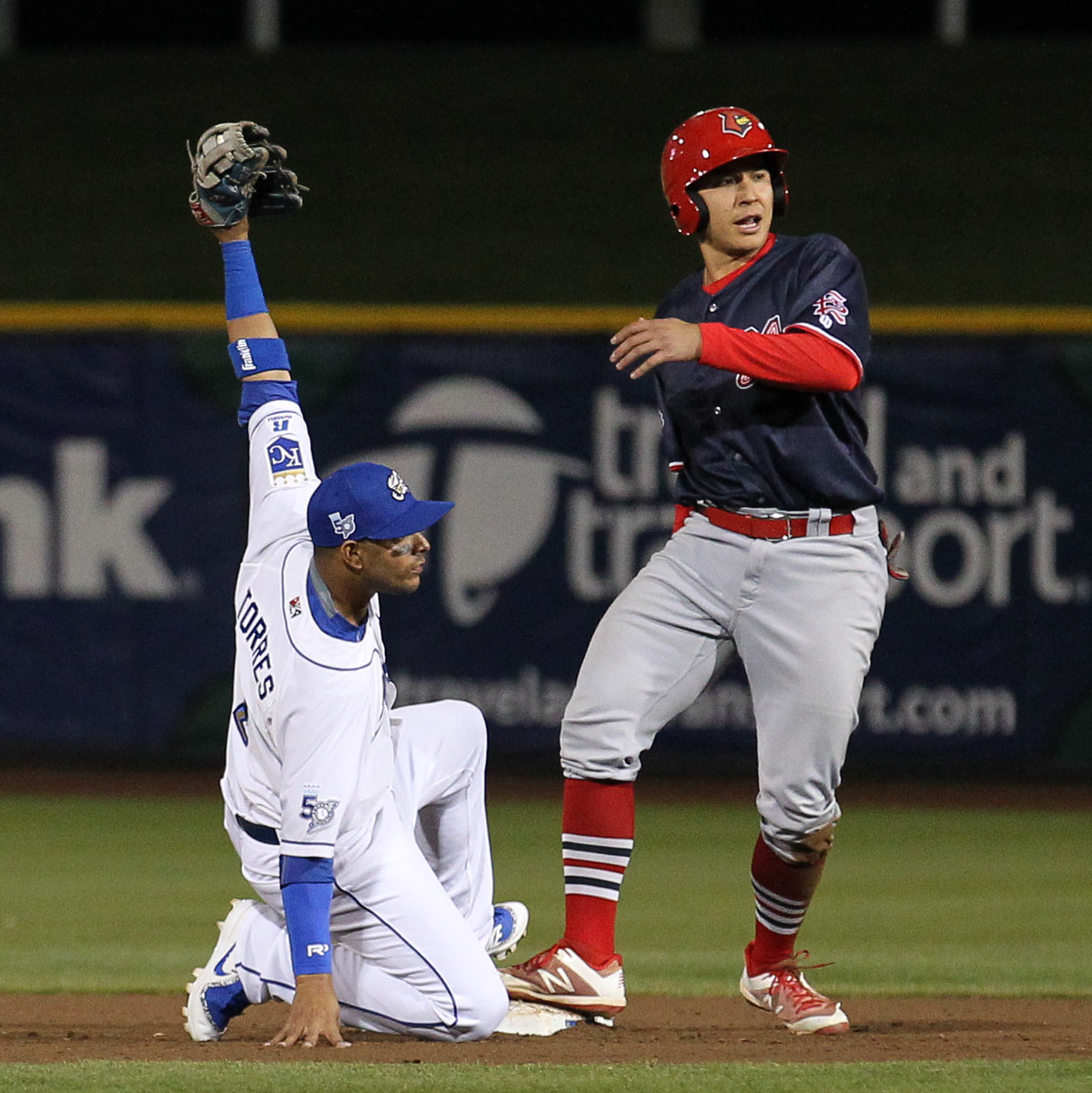 Ramon Torres (left) of the Omaha Storm Chasers holds his glove up in the air after tagging out Steven Baron of the Memphis Redbirds during a 2018 game at Werner Park in Omaha.